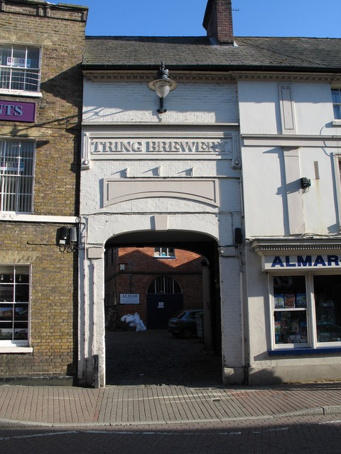 Former brewery, High Street, Tring, Hertfordshire